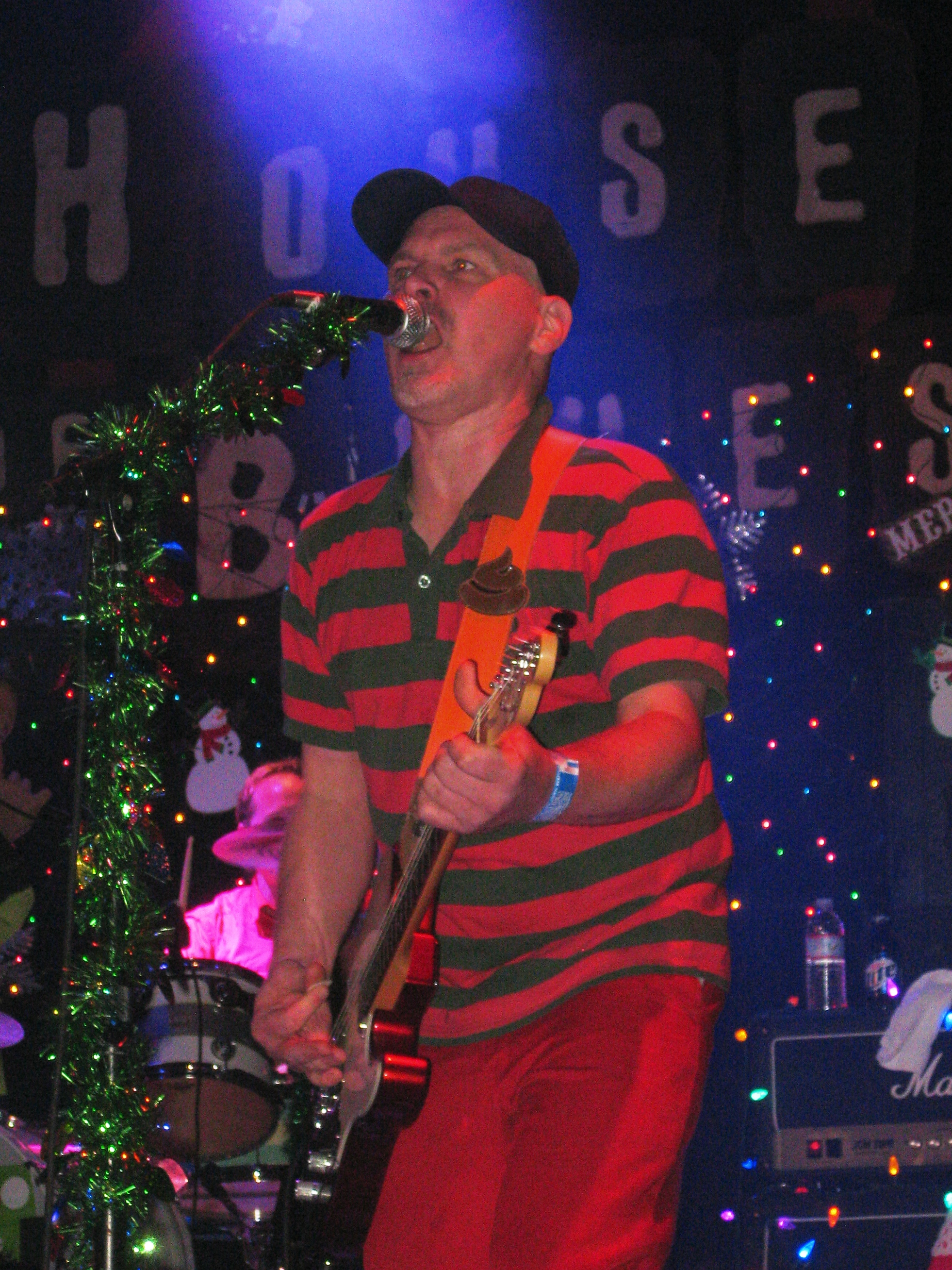 Guitarist/singer Warren Fitzgerald of The Vandals performing December 21, 2012 at the House of Blues in Anaheim, California